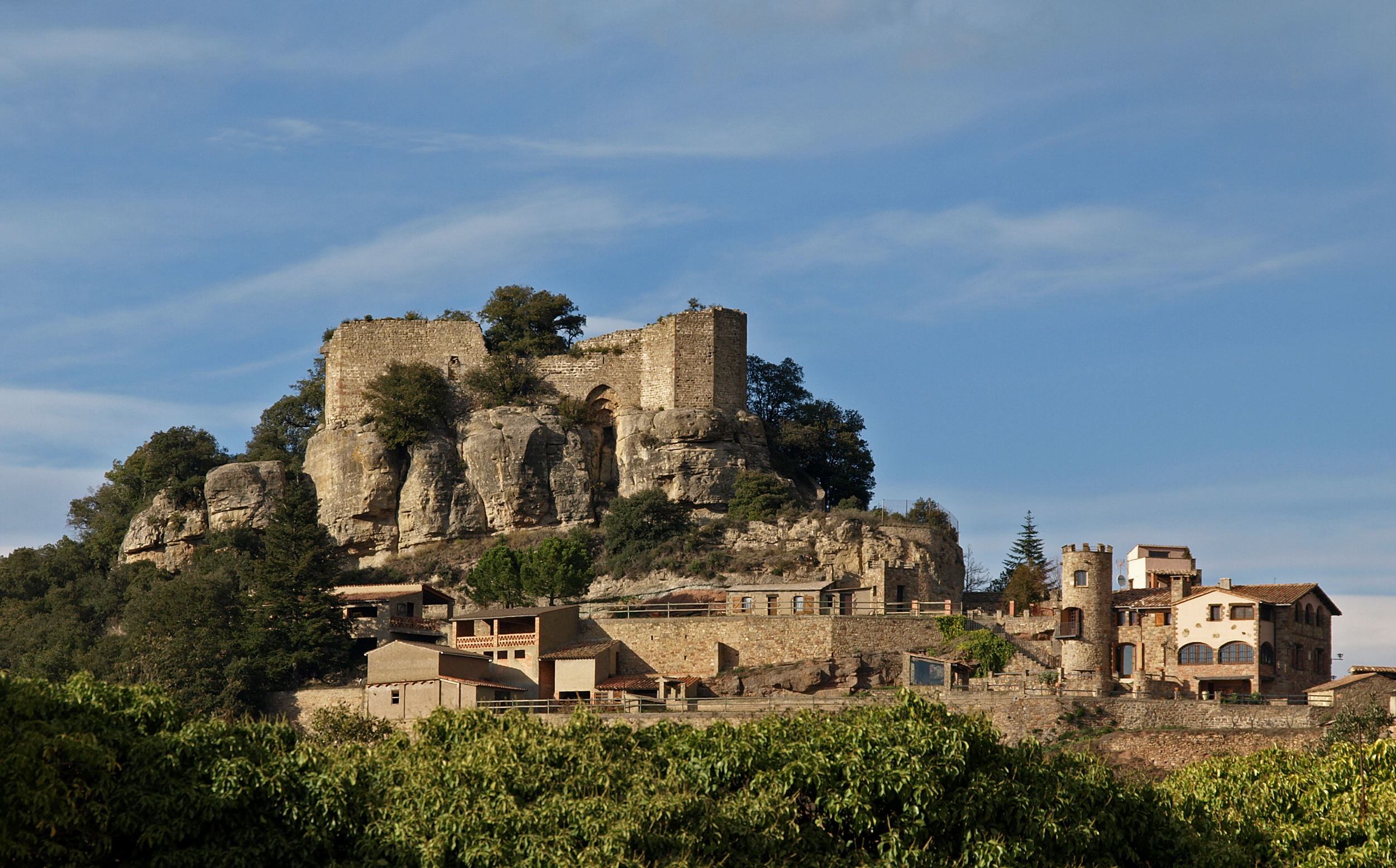 Castle of Granera, Xth - XIth century (Catalonia, Spain).